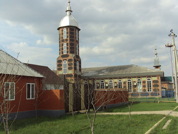 The mosque is located in the village of Alkhan-Yurt